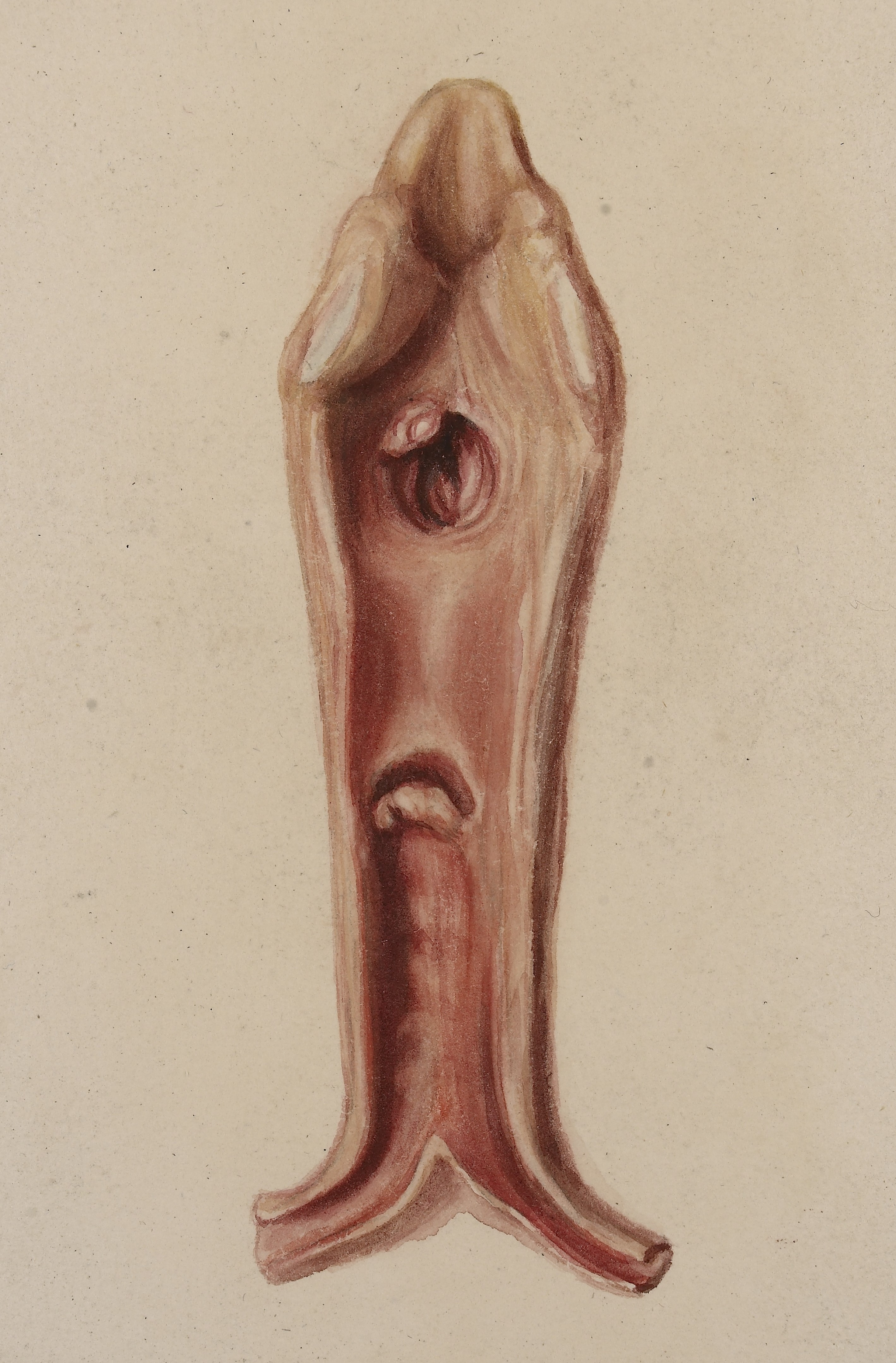 Watercolour drawing of the interior of a larynx after tracheotomy. The lower end of the tube had ulcerated through the mucous membrane below the wound and raised a small flap. This acted like a valve, and during a fit of coughing closed the trachea, and caused the death of the child. Medical Photographic Library Keywords: Mark, Leonard Portal